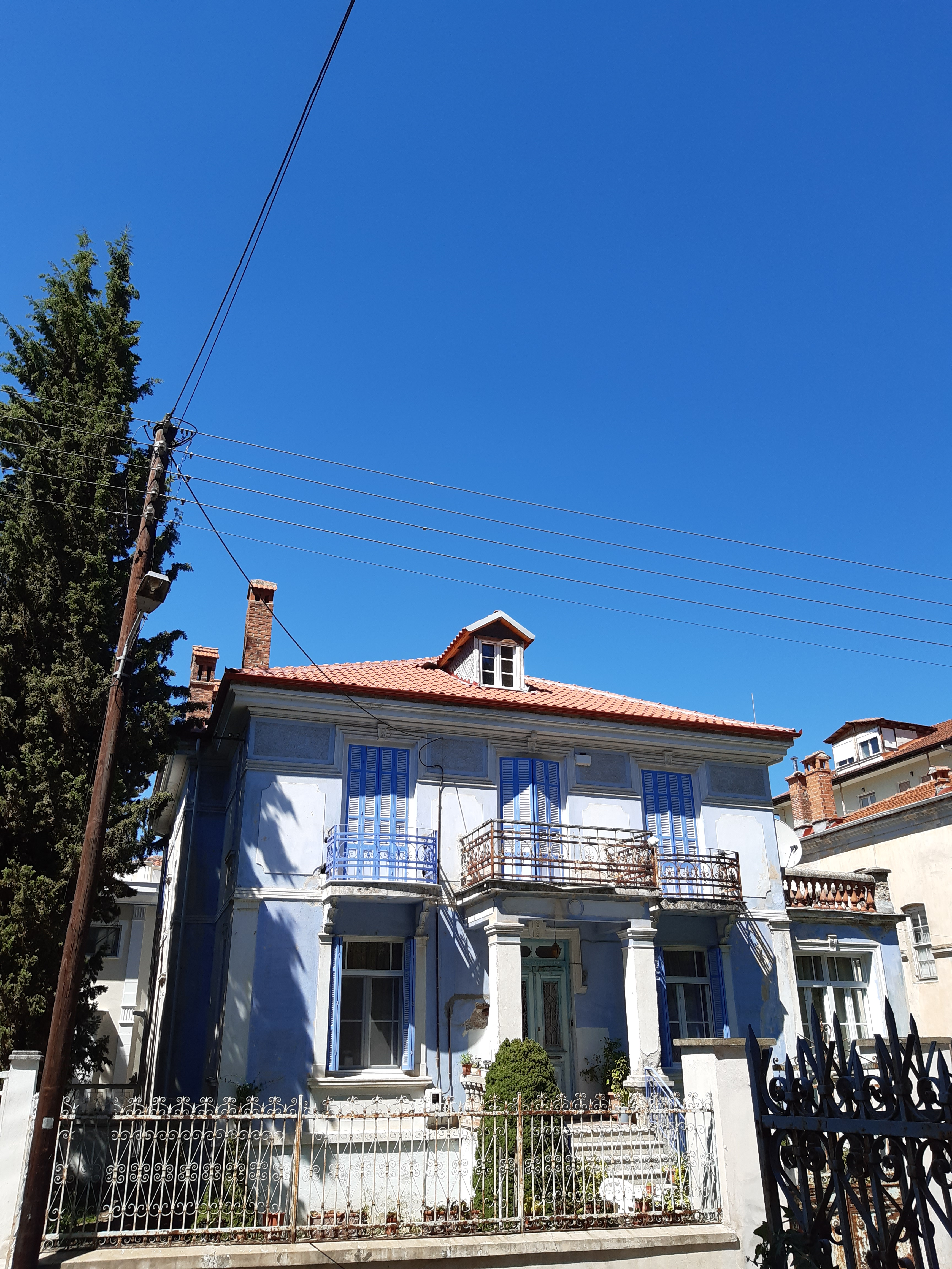 Dais Mansion in August 2020